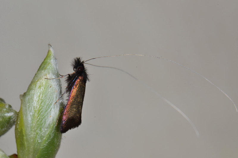 Adela cuprella, male. Location: The Netherlands - Thorn - Grote Hegge